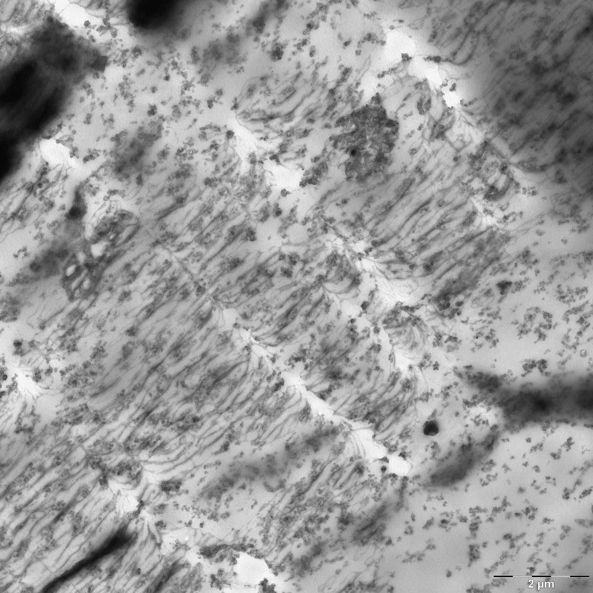 Incorporated electroconductive carbon black in the PP matrix (picture from TEM, taken by PIB, there is no reference to an official article)